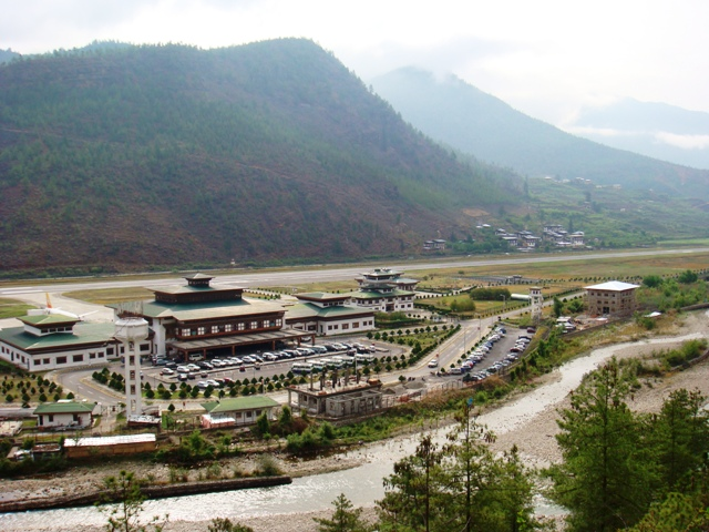 Paro Airport, the only airport in Bhutan, Paro.